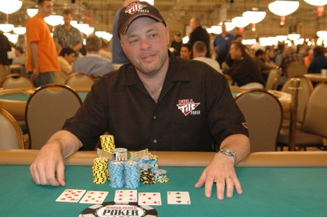 david grey in 2006 World Series of Poker - Rio Las Vegas.